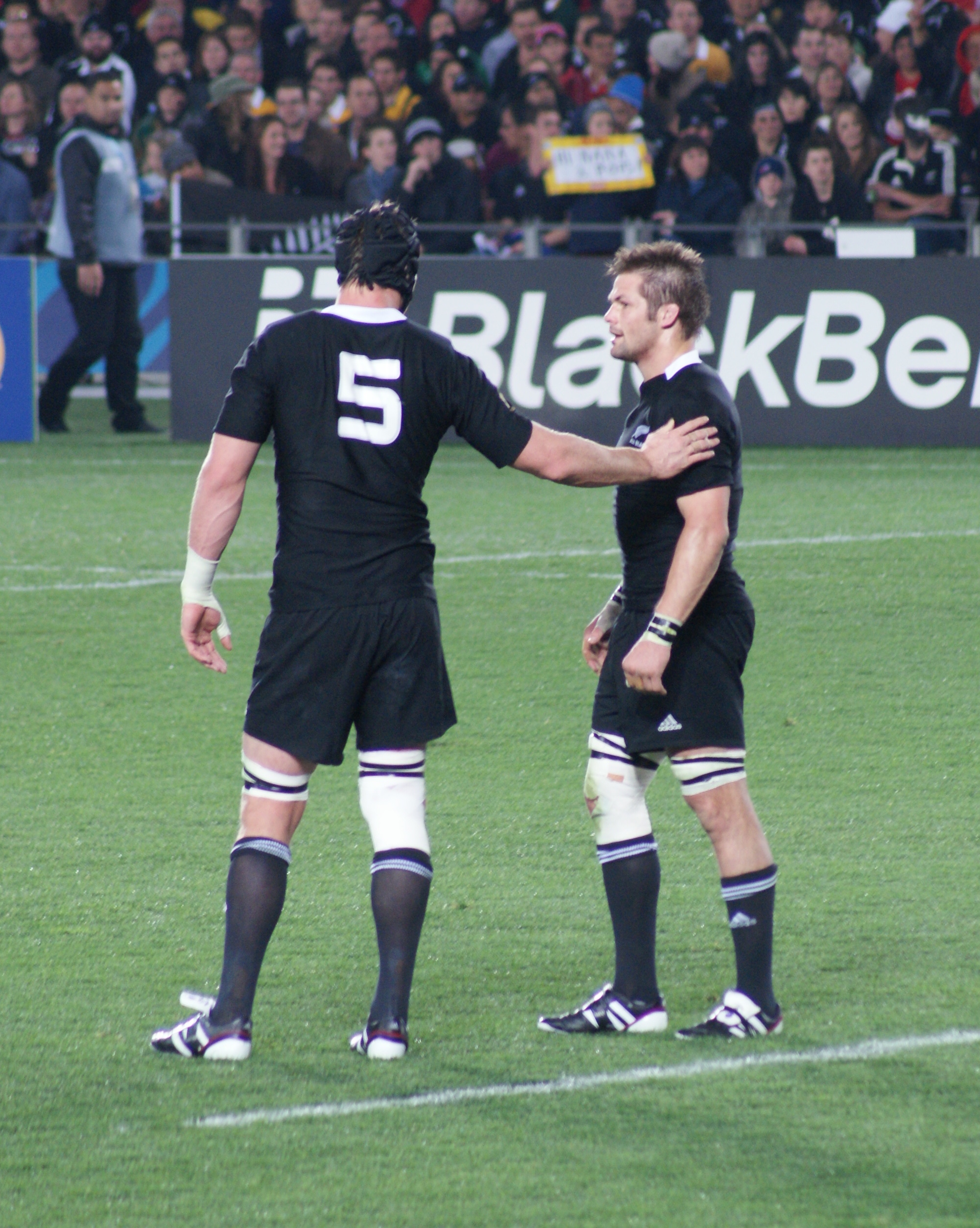 Opening match between New Zealand and Tonga during 2011 Rugby World Cup in New Zealand.